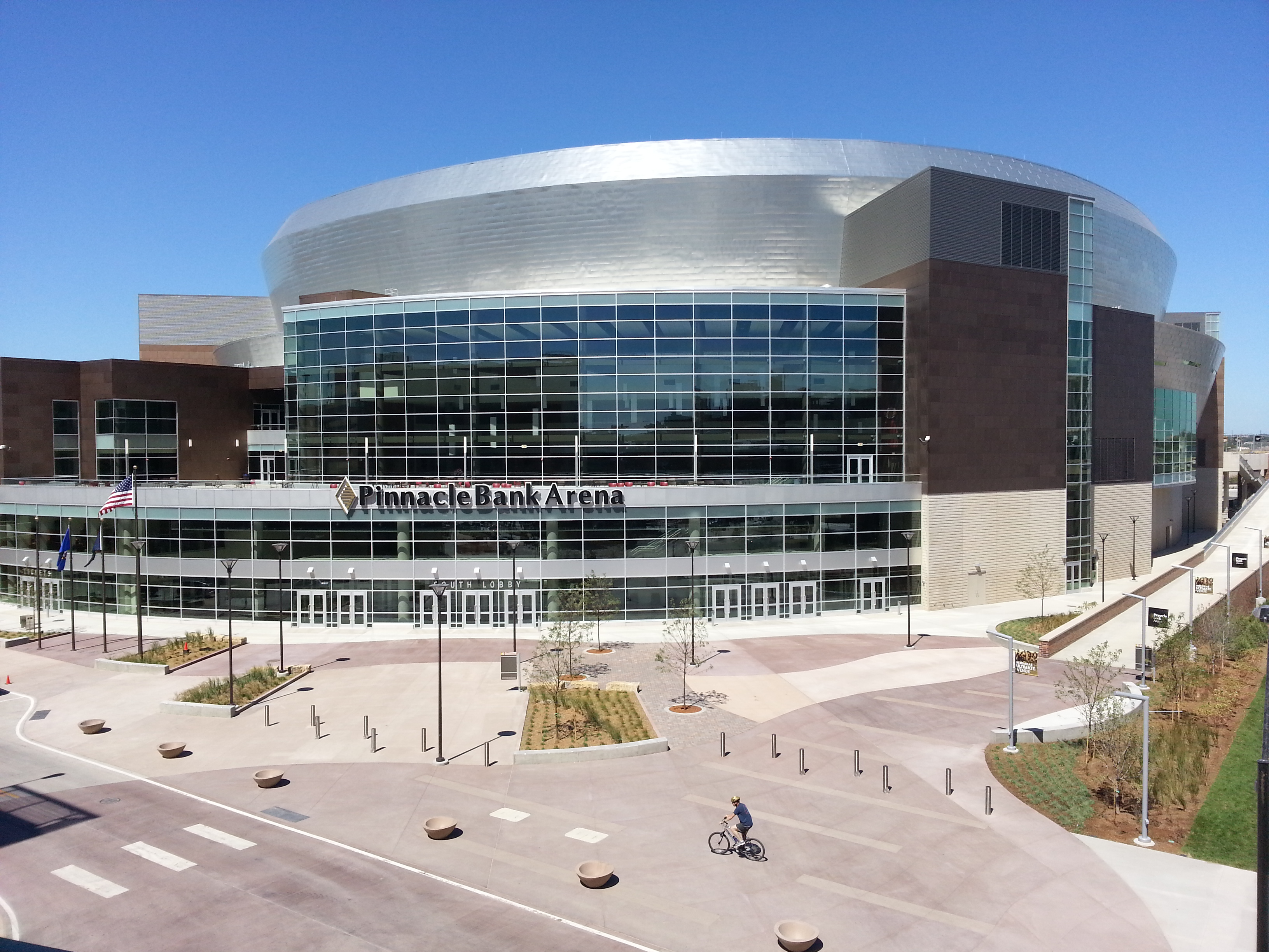 An elevated view of Pinnacle Bank Arena, as seen from the "Railyard" area to the south. Image taken 2 September 2013.